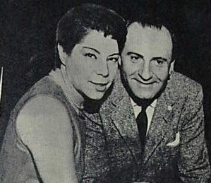 Nydia Reynal y Bordigón Olarra- actores argentinos